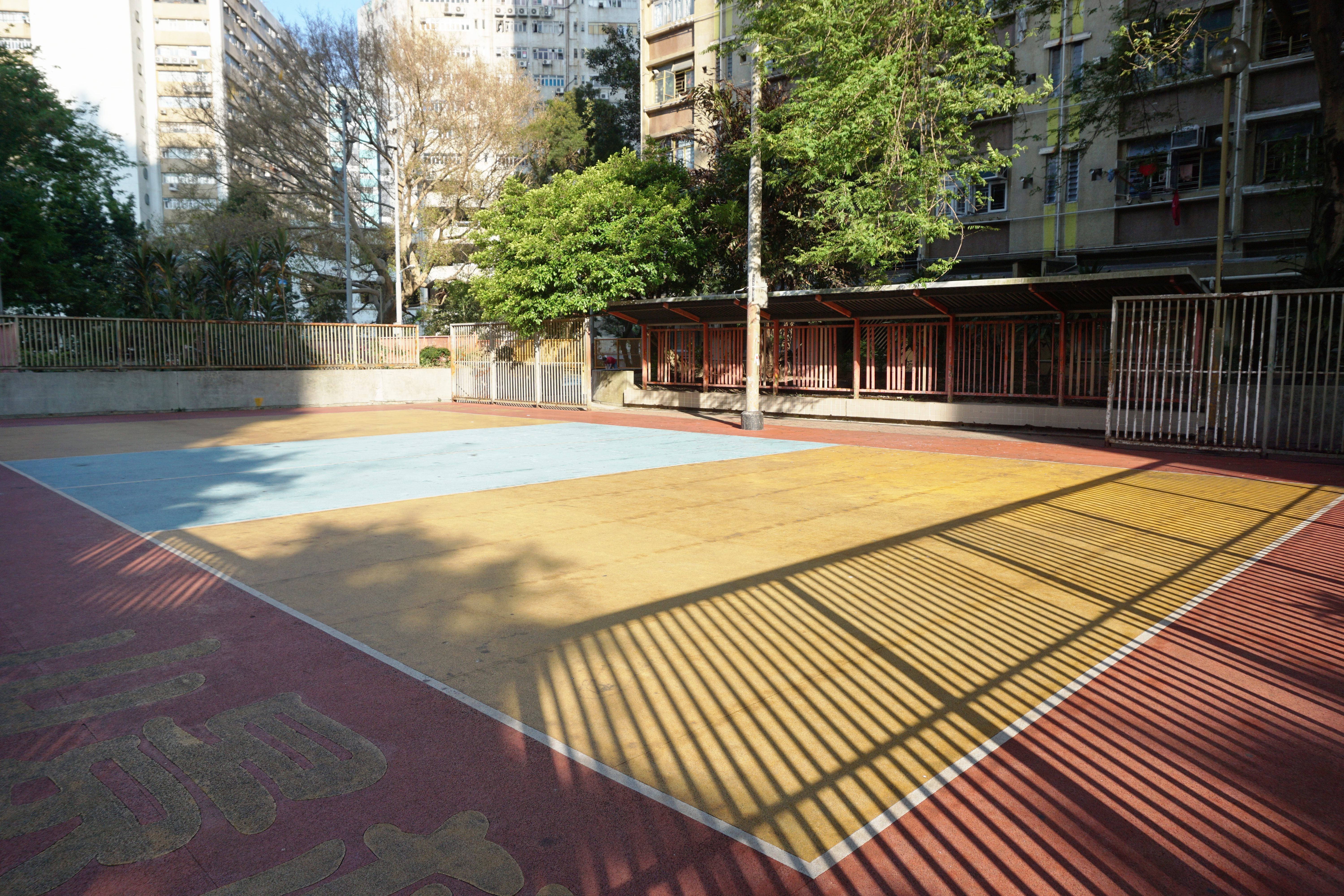 Shan King Estate in Tuen Mun, Hong Kong.